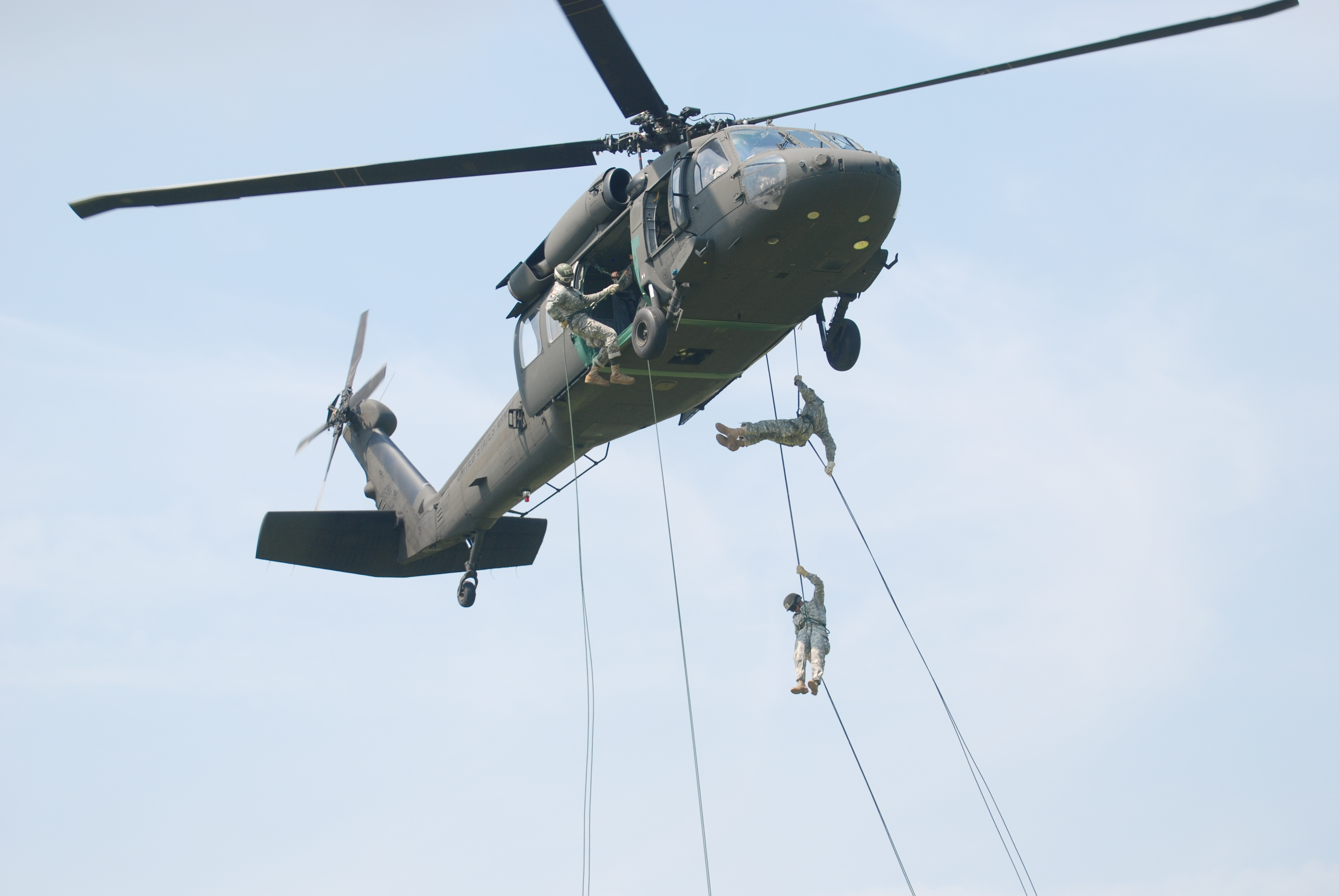 Soldiers from the Massachusetts, Virginia and Pennsylvania National Guard practice rappelling out of a UH-60 Blackhawk helicopter hovering 80 feet above the ground at the Camp Edwards Air Assault school in Cape Cod, Mass. on Aug. 20.